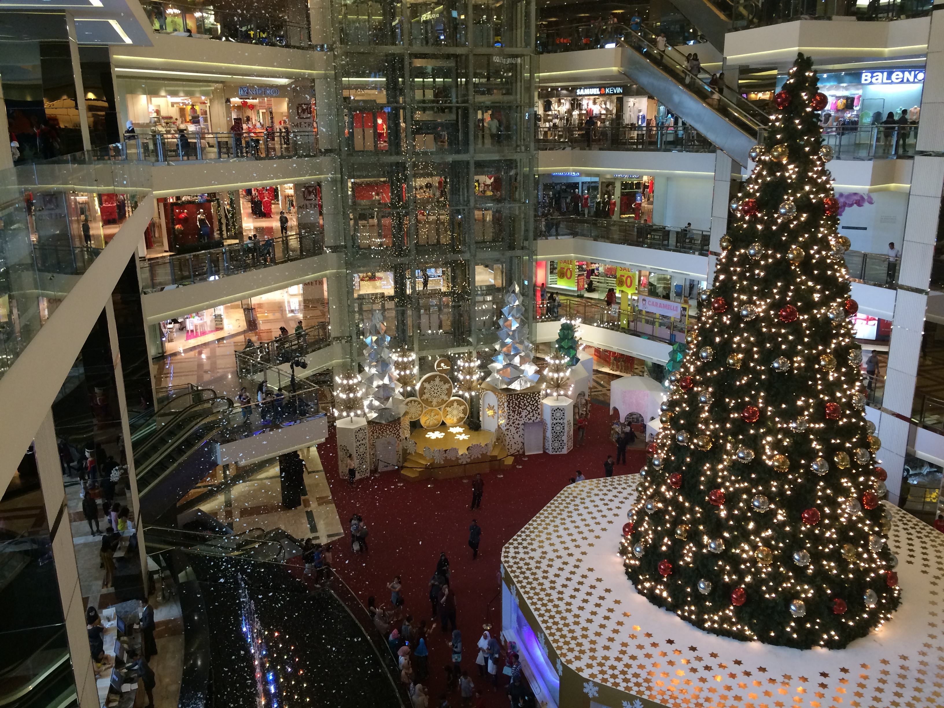 Christmas Tree in Mall Taman Anggrek, Jakarta, Indonesia